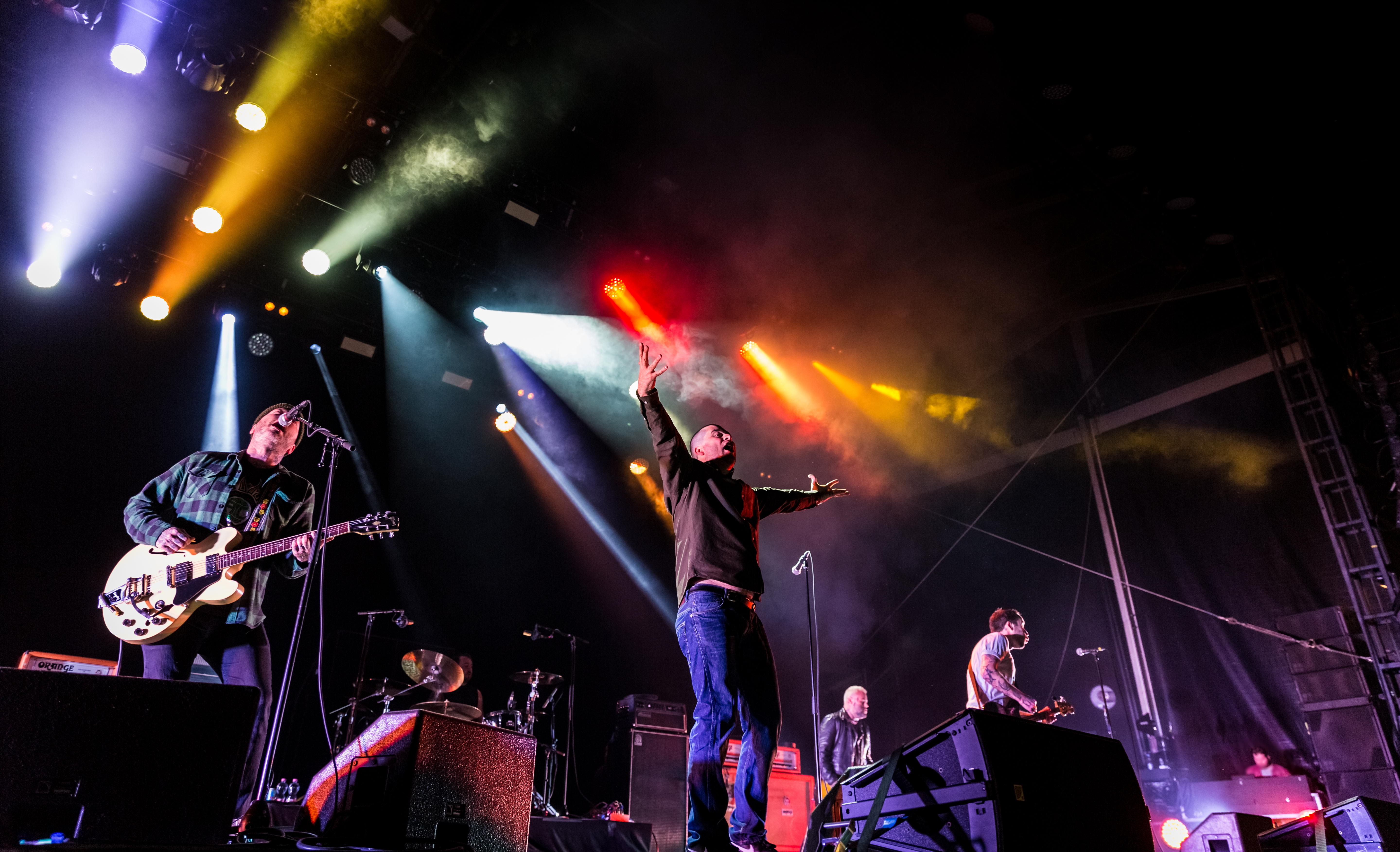 Alexisonfire - Rock am Ring 2018